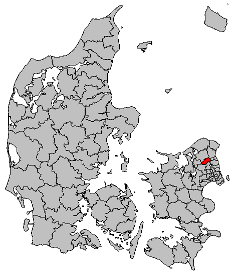 Location maps of Danish municipalities